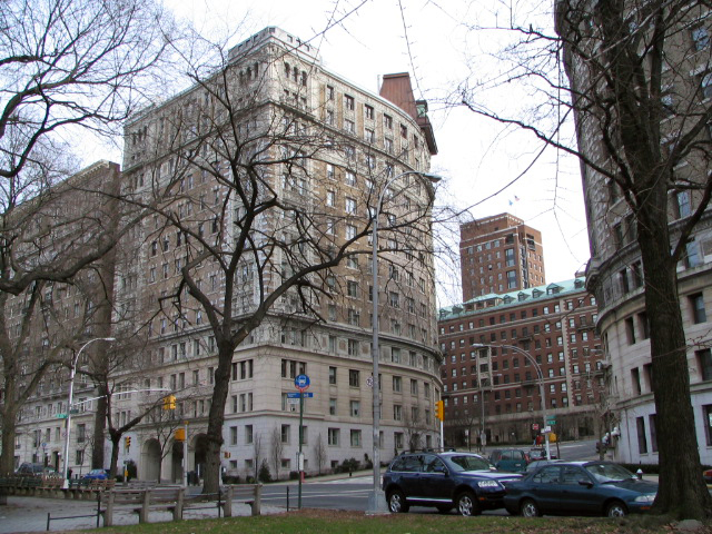 Looking northeast from the northern corner of 115th Street and Riverside Drive, across 116 & Riverside at The Paterno.